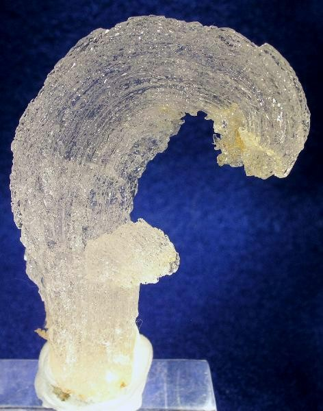 Kalinite Locality: Silver Peak, Silver Peak District, Esmeralda County, Nevada, USA (Locality at ) Size: 5.1 x 3.1 x 1.1 cm. A beautiful ram’s-horn crystal of this rare, but questionable sulfate. Ex. Martin Zinn Collection. [Note: very similar specimens from Silver Peak have been X-rayed and found to be potassium alum.]